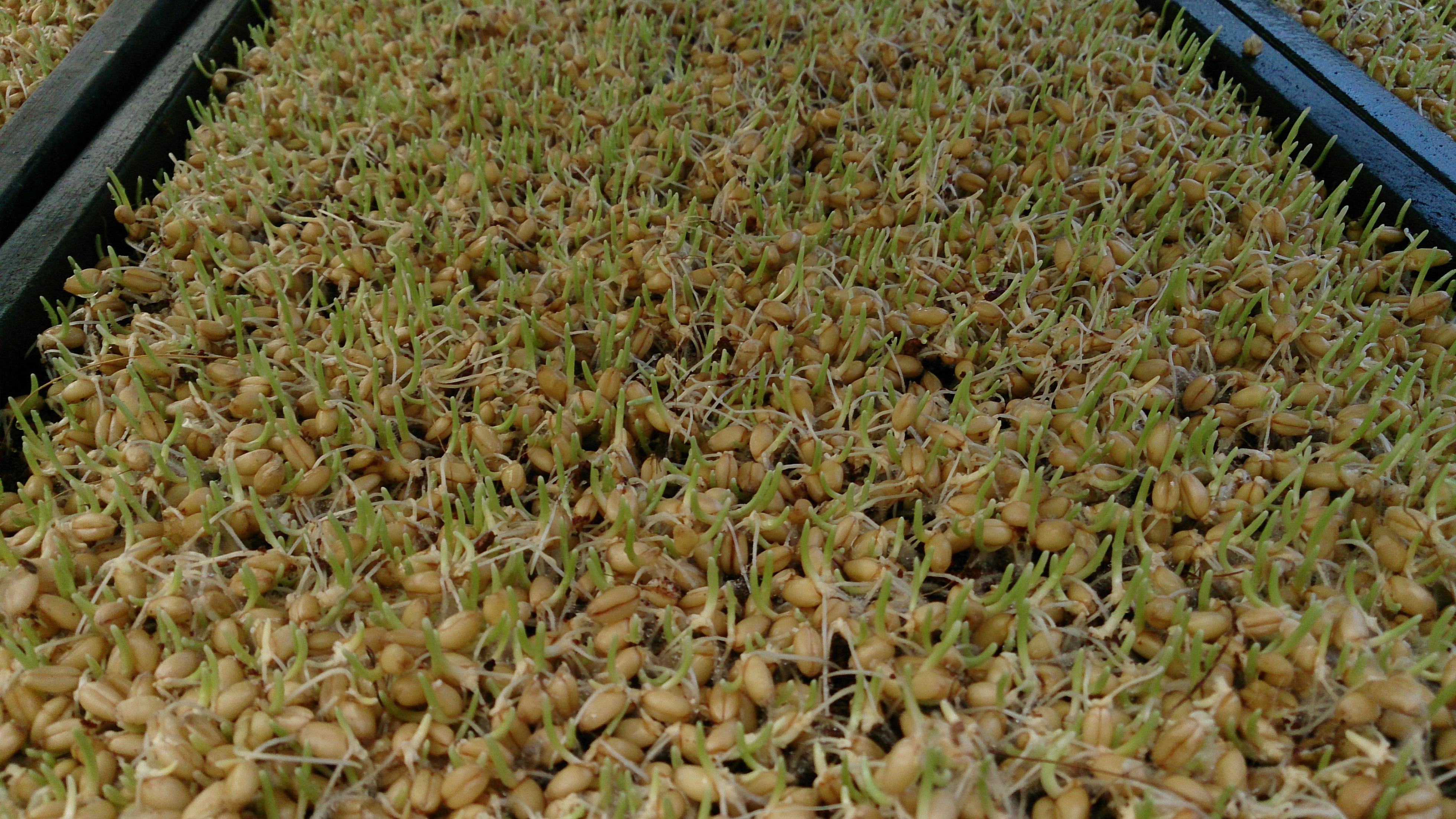 Triticum aestivum wheat sprouts